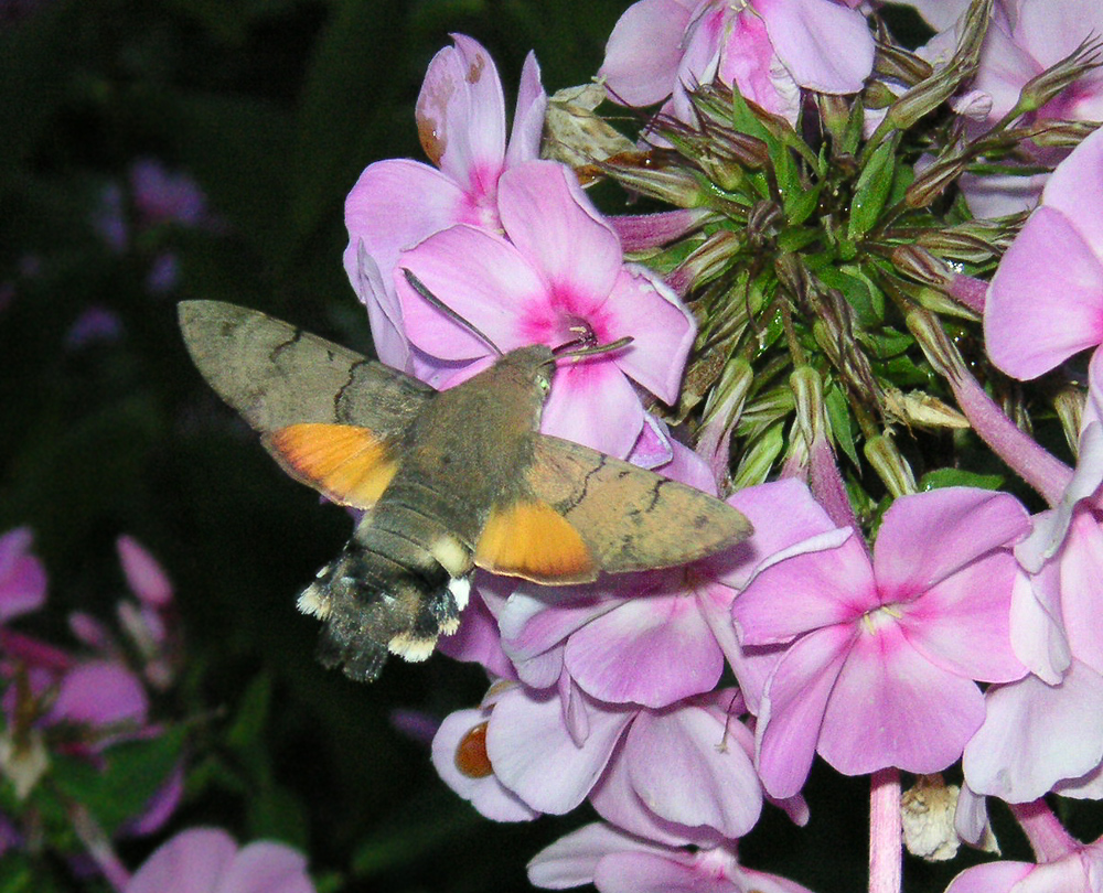 Hummingbird Hawk-moth (Macroglossum stellatarum), photographed in Hanko, Finland The flower is Perennial Phlox (Phlox paniculata)